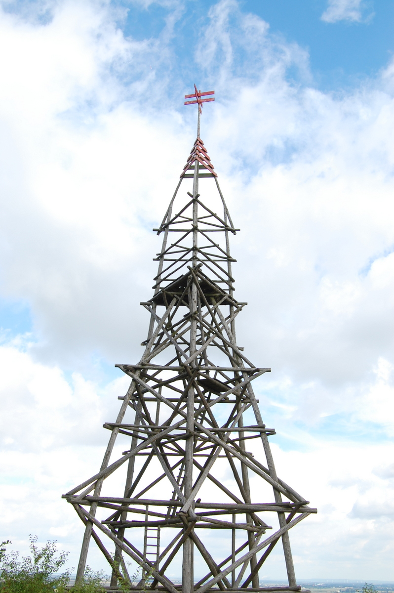 Copy of a triangulation station from the 30s in Germany.